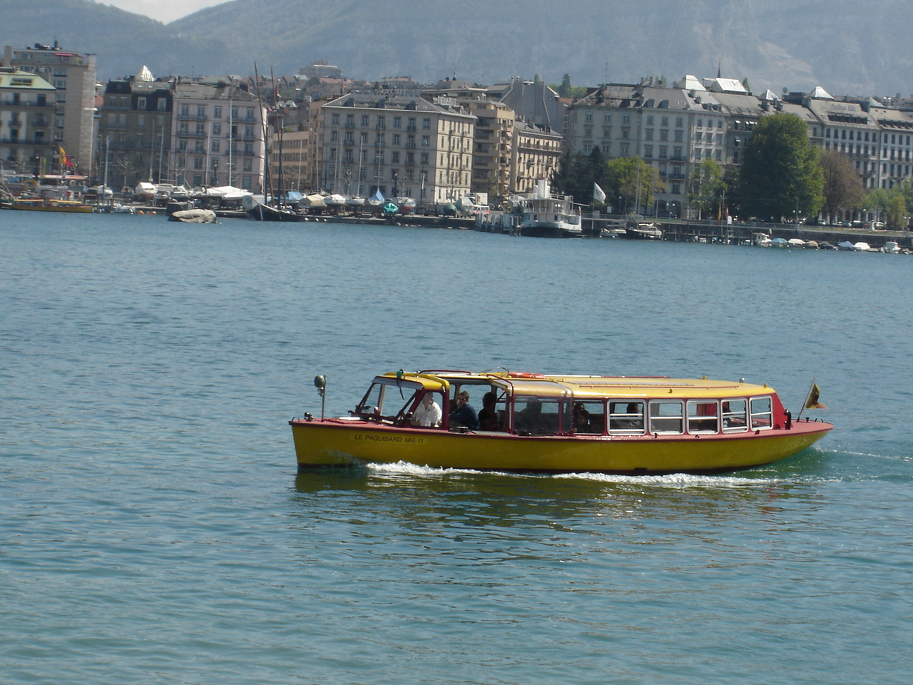 A trip boat in Geneva.